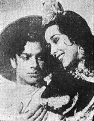 Dancers Rosario and Antonio